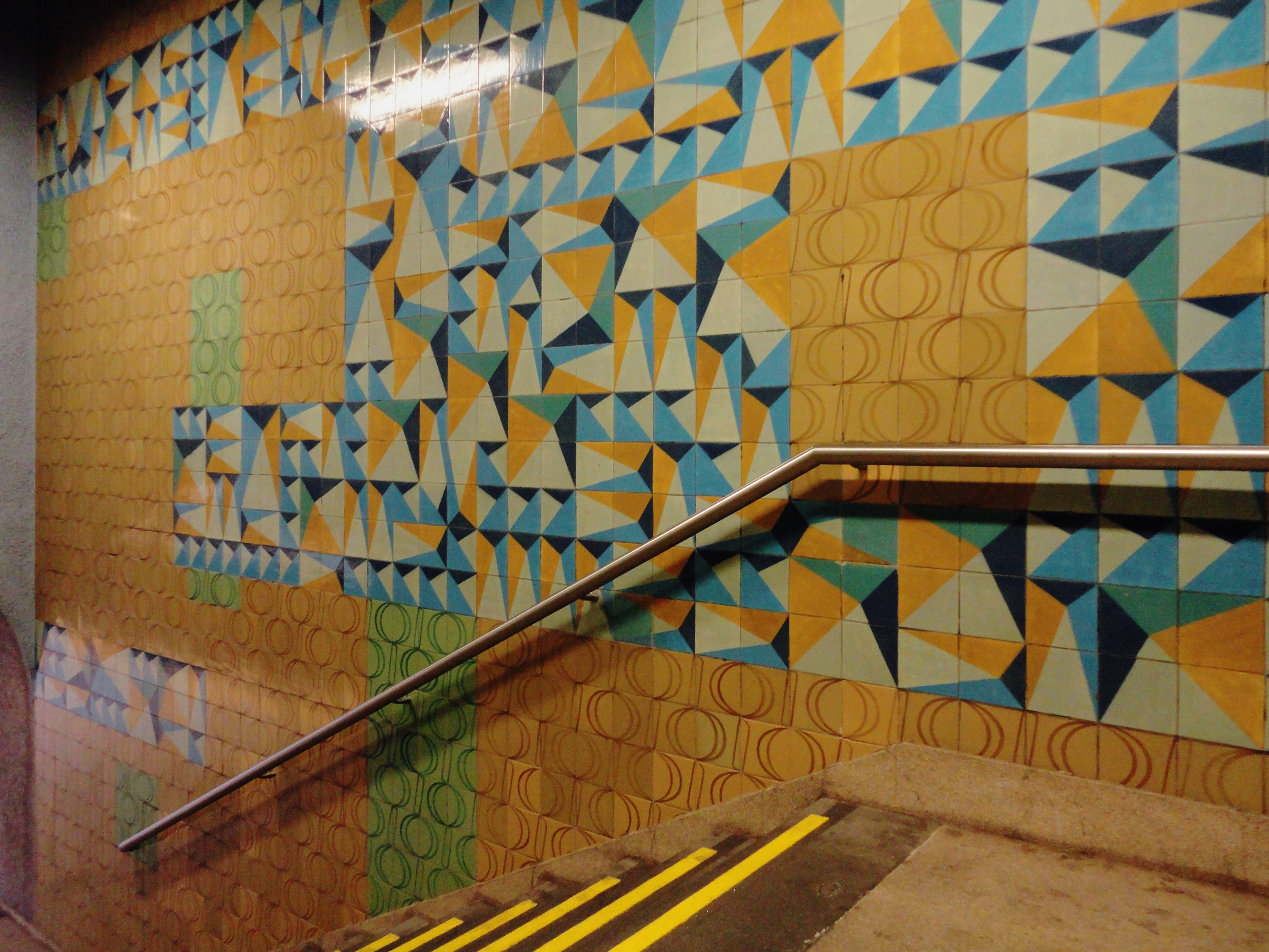 Lisbon underground, Avenida; azulejos (ceramic tiles) by Rogério Ribeiro